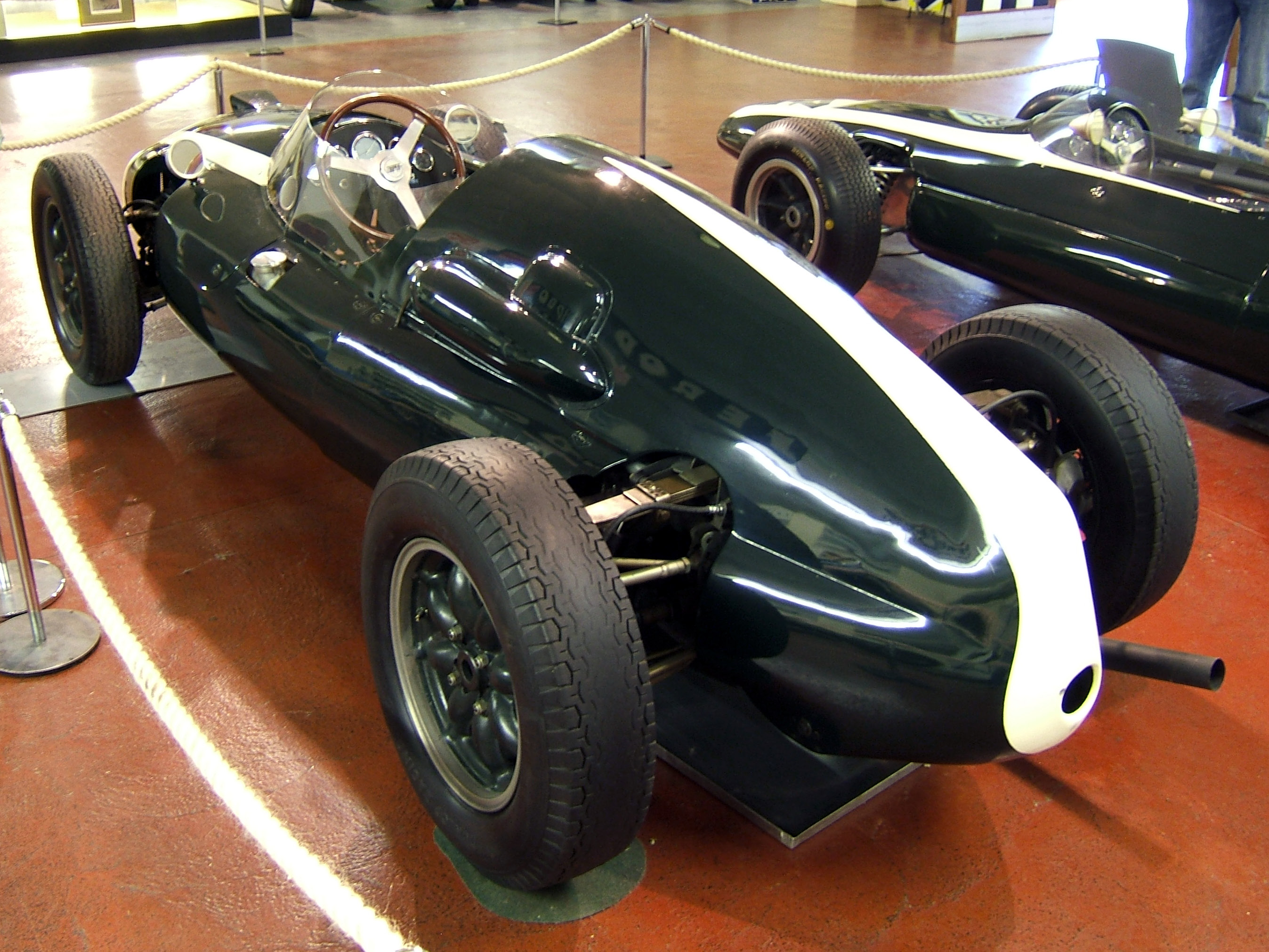 A works Cooper T51 Formula One car of 1959, the first mid-engined F1 car to win the World Championship. In the Donington Grand Prix Collection museum, Leics., UK.